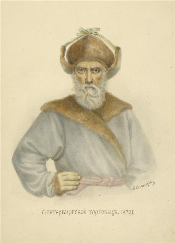 A man in a "treukh" (треух)